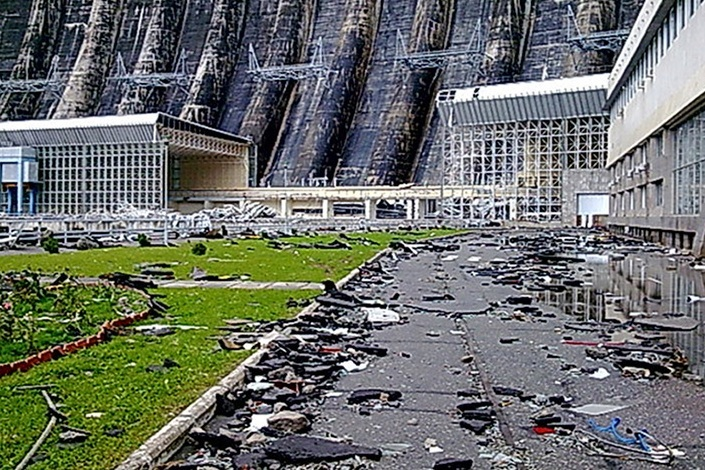 Damage to the Sayano-Shushinskaya power station